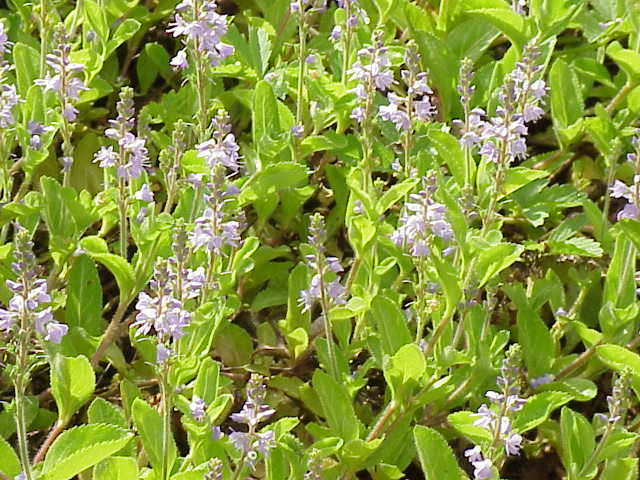 Species: Veronica officinalis Family: Scrophulariaceae Image No. 3